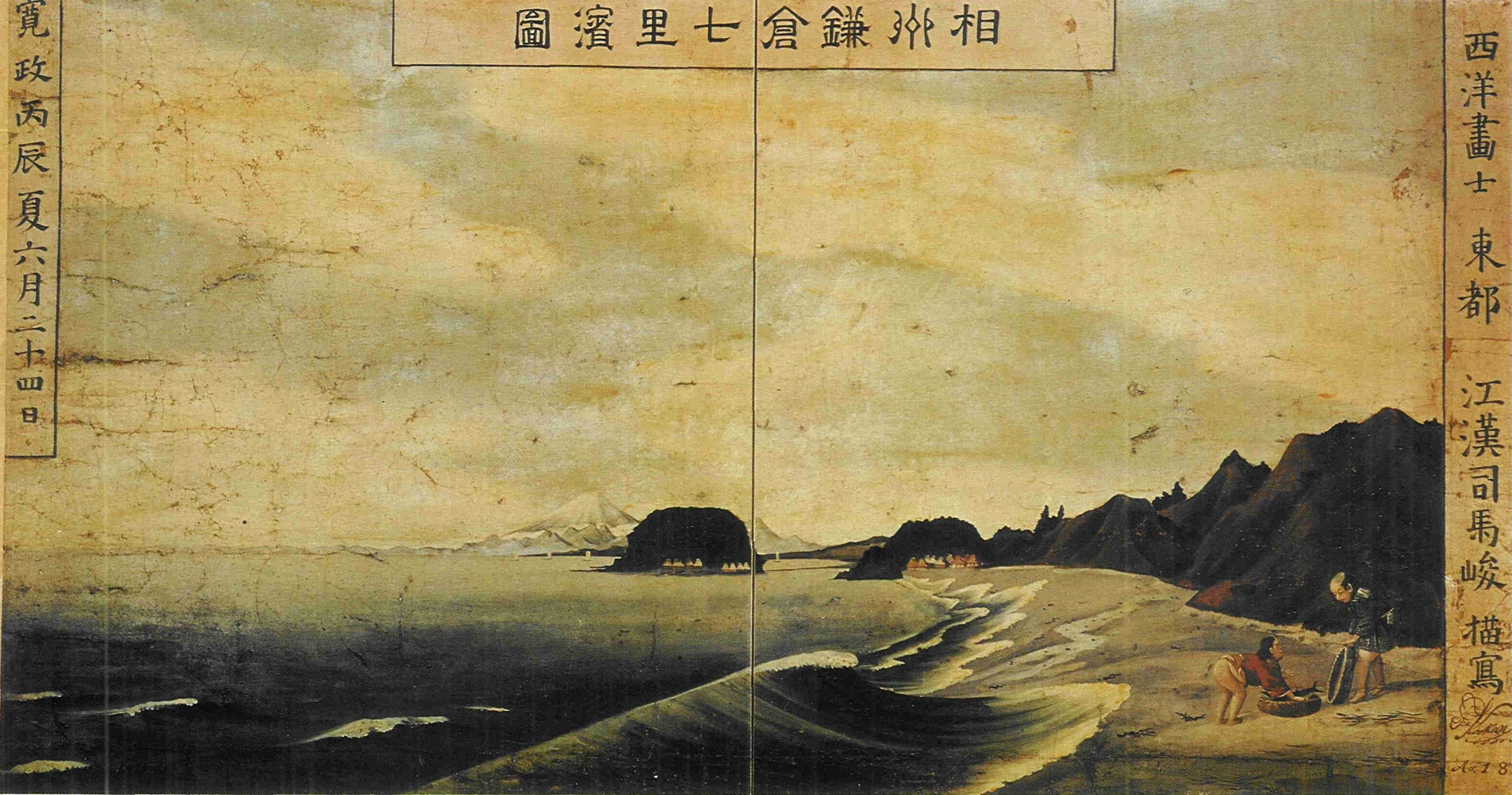 Shiba Kôkan 7-miles beach